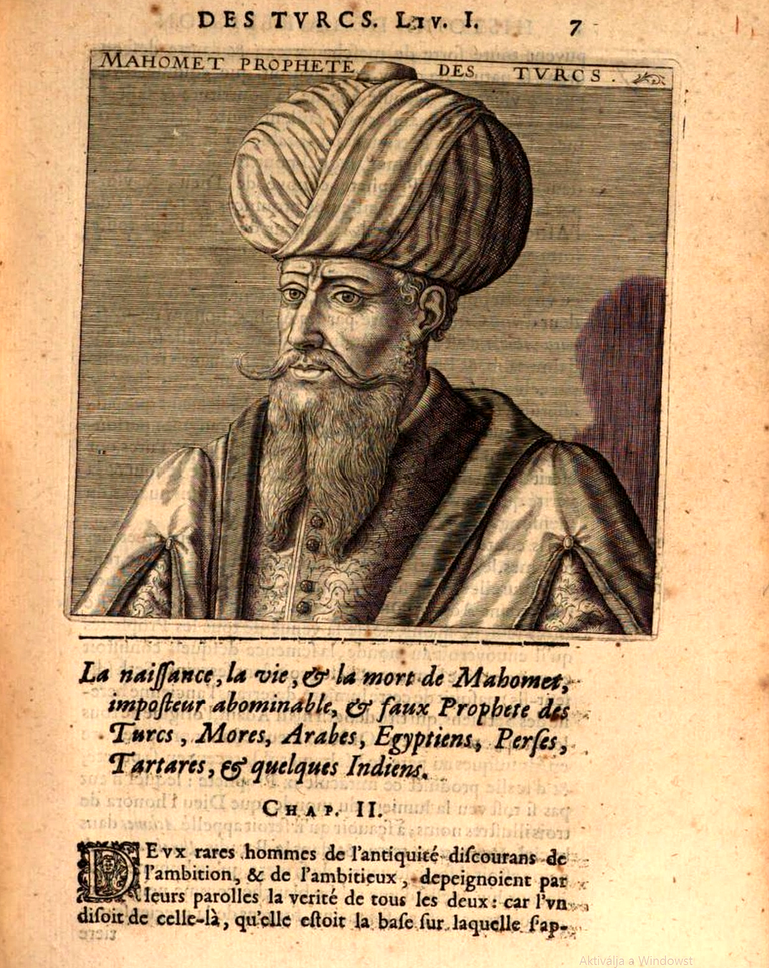 Portrait of Mohammed from Michel Baudier's Histoire générale de la religion des turcs (Paris, 1625). It was sold at auction by Sotheby's in 2002. The same image was incorporated into the cover of issue #2195 of the French magazine Le Nouvel Observateur. (Hat tip: Kilgore Trout, and Raafat.)